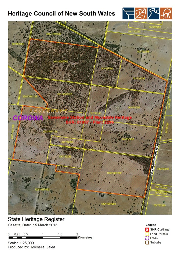 Savernake Station: SHR Plan